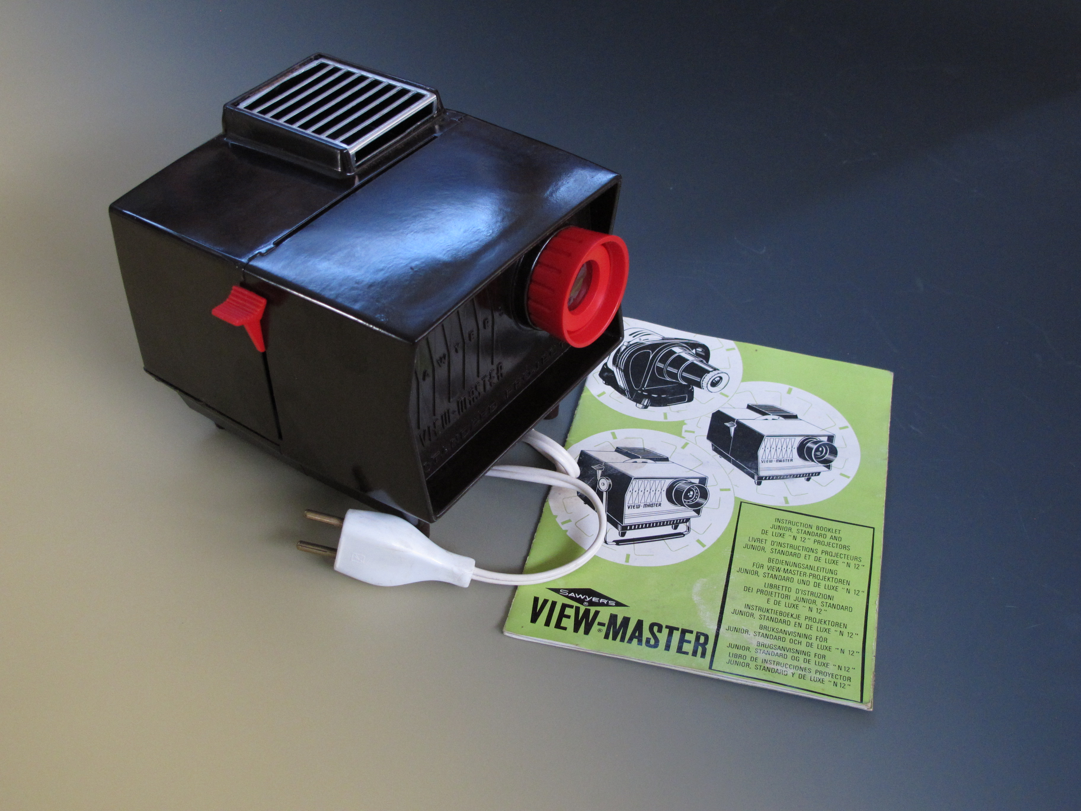 Sawyer`s View-Master Standard